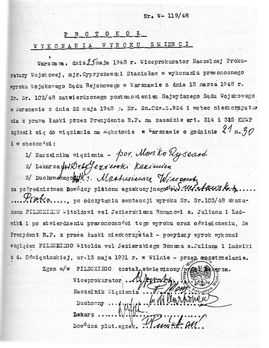 Witold Pilecki death certificate from execution carried out by Piotr Śmietański in 1948, official document